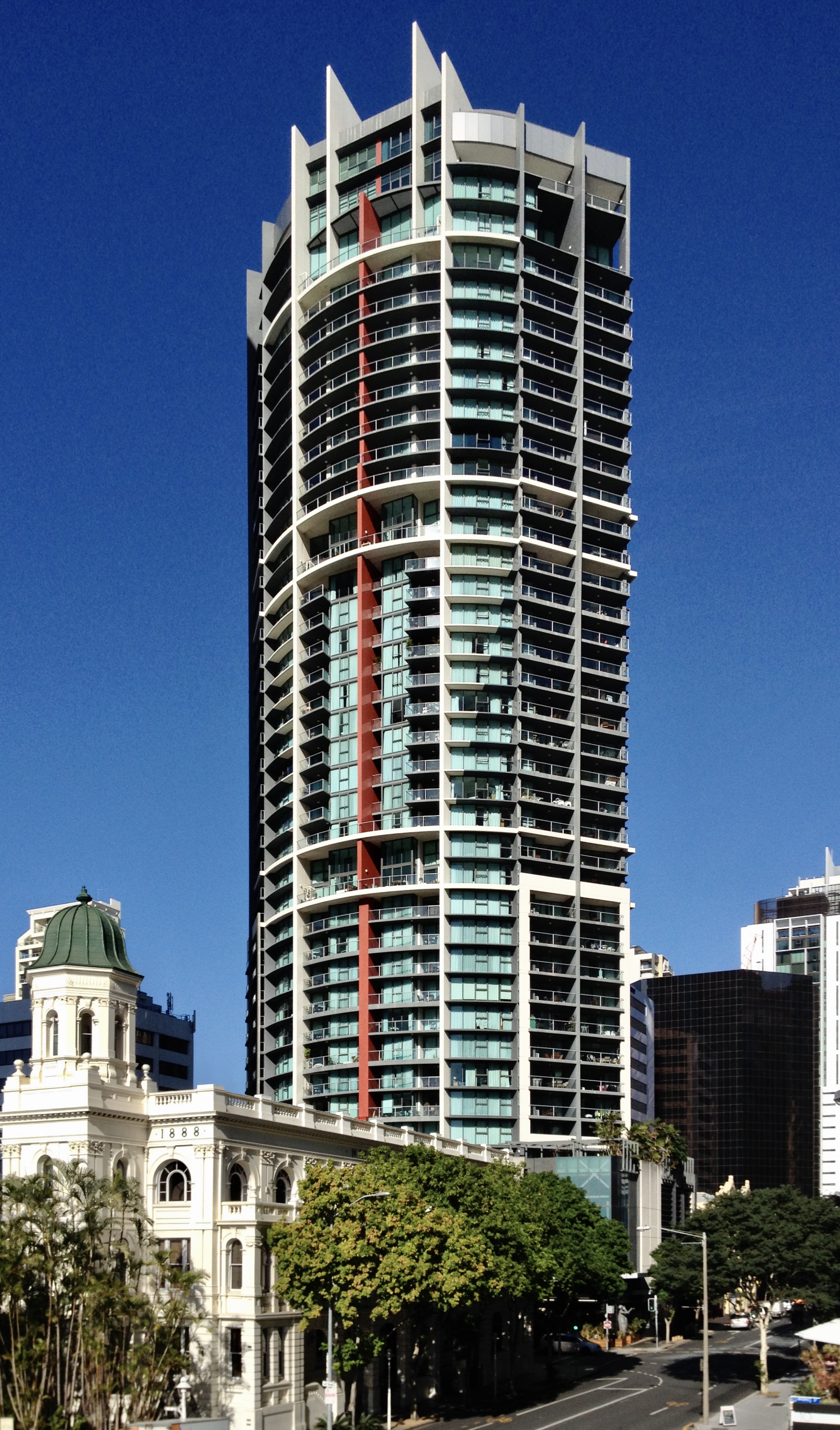 Felix Tower at 26 Felix Street, Brisbane and the old Naldham House